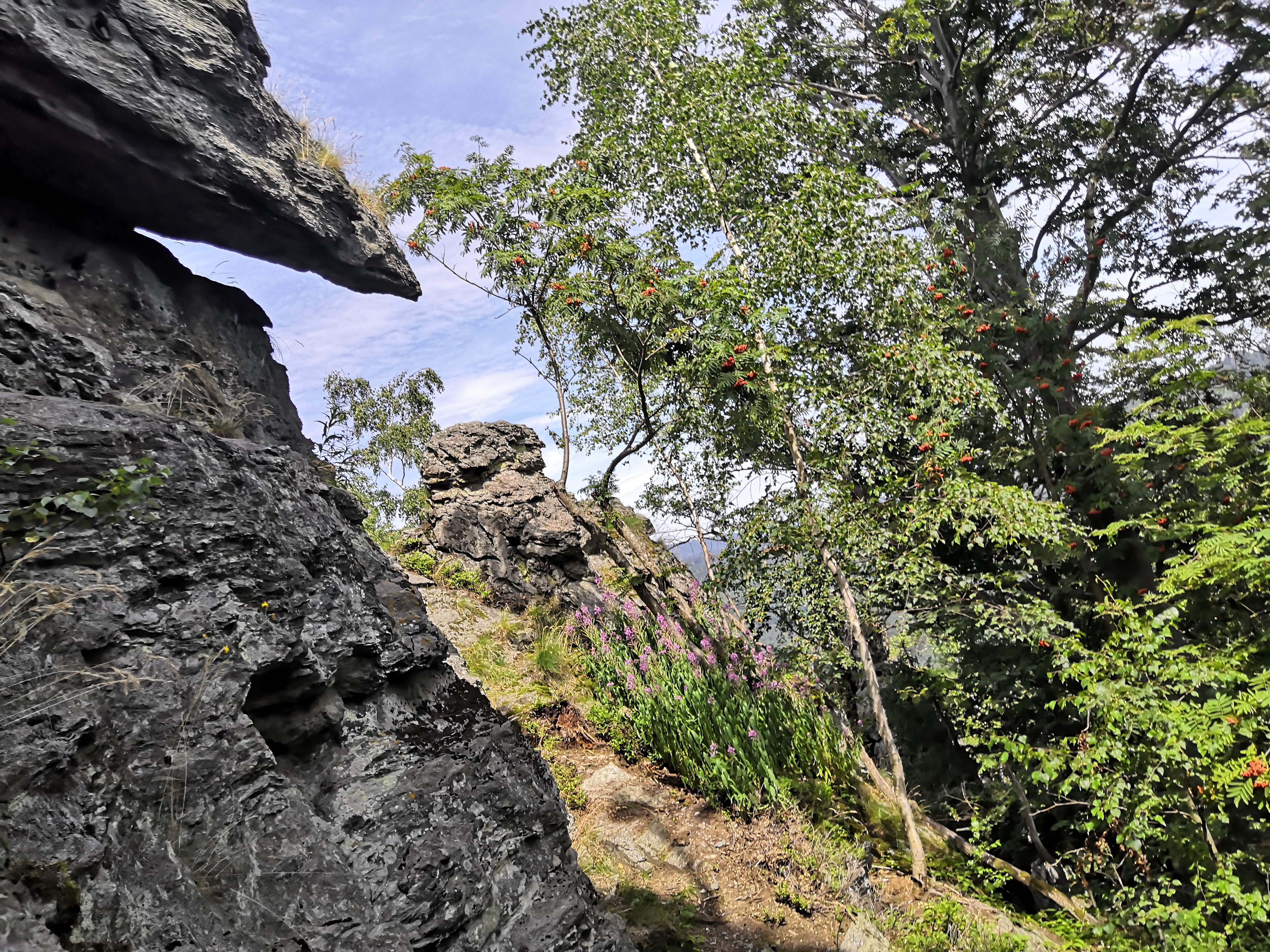 Oskava, Šumperk District, Czechia. Rabštejn nature reserve.